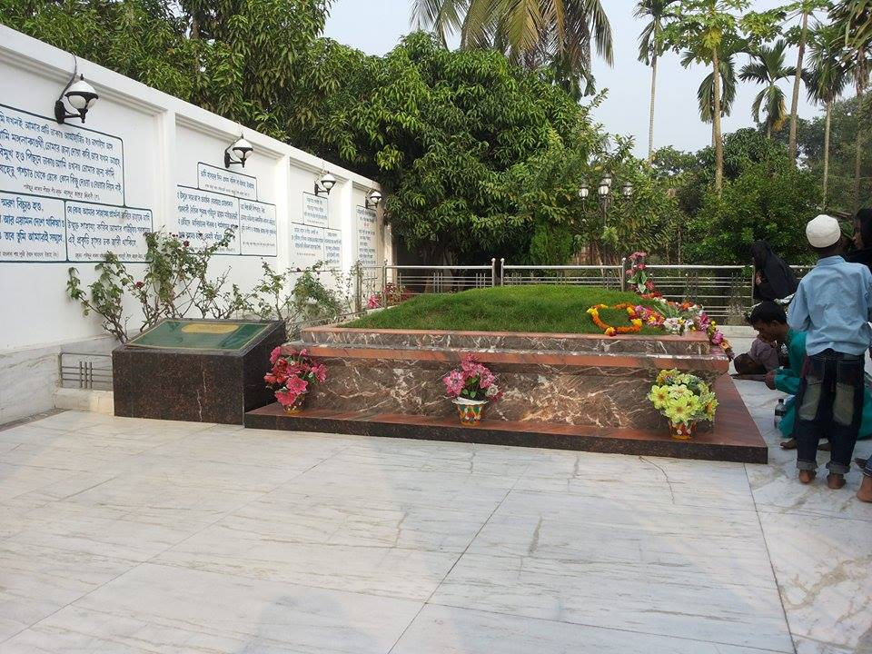 Shrine of Sayed Delaor Husaein at Bagh-e Husaeini